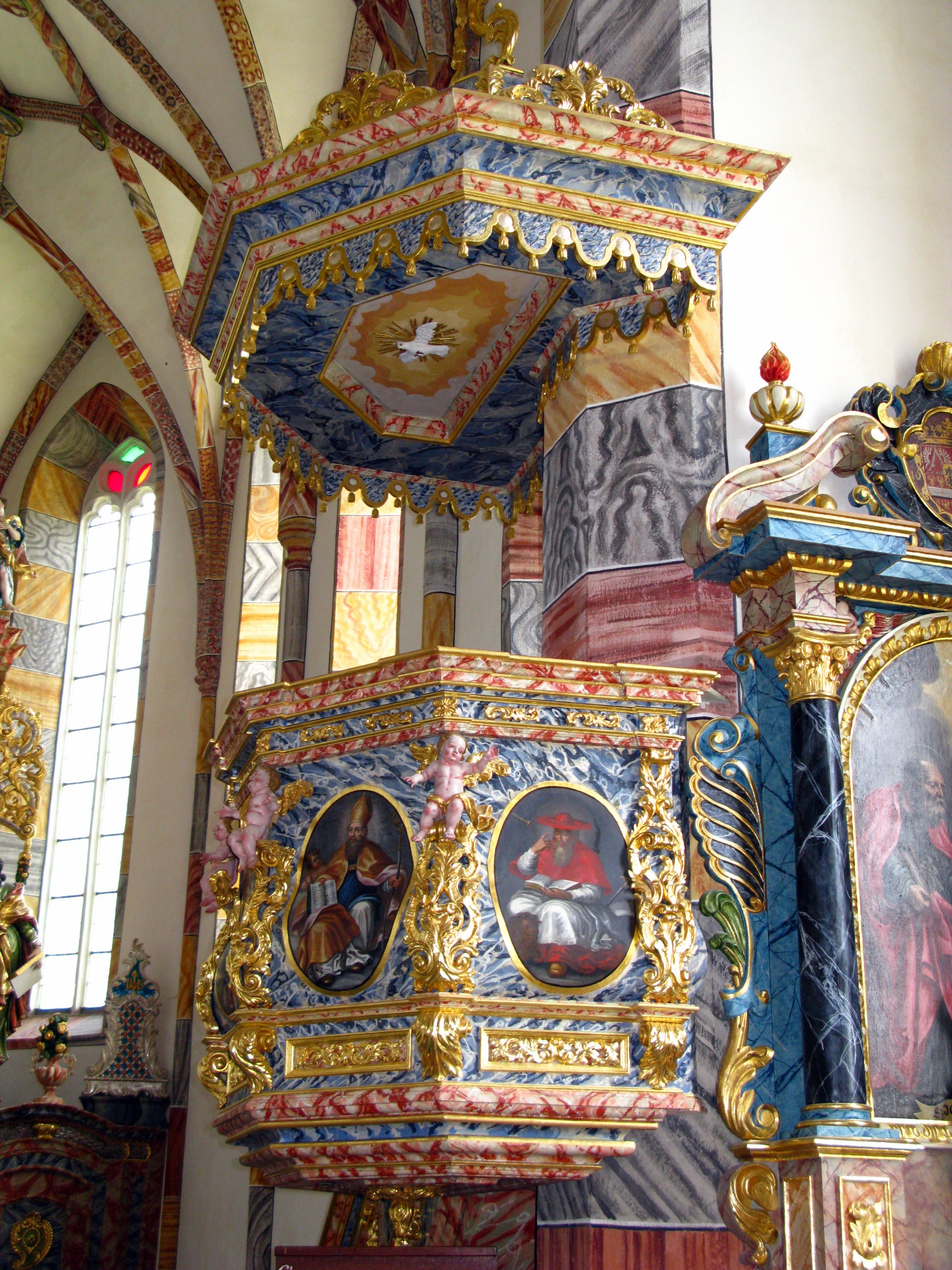 Pulpit and altar of the church of Matzelsdorf, a village in the community of Millstatt in Carinthia / Austria / EU.